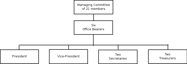 The organization structure of Shri Mahila Griha Udyog Lijjat Papad, based on [1]